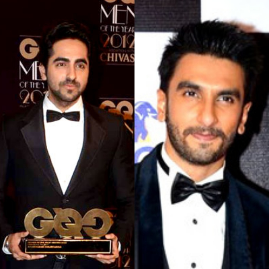 Indian actors Ayushmann Khurrana and Ranveer Singh (montage to illustrate their "tie" win of Filmfare Award)